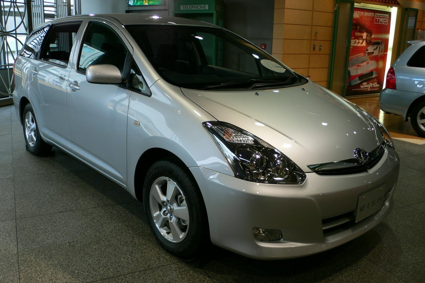 Toyota Wish (2005 -) photographed at AMLUX